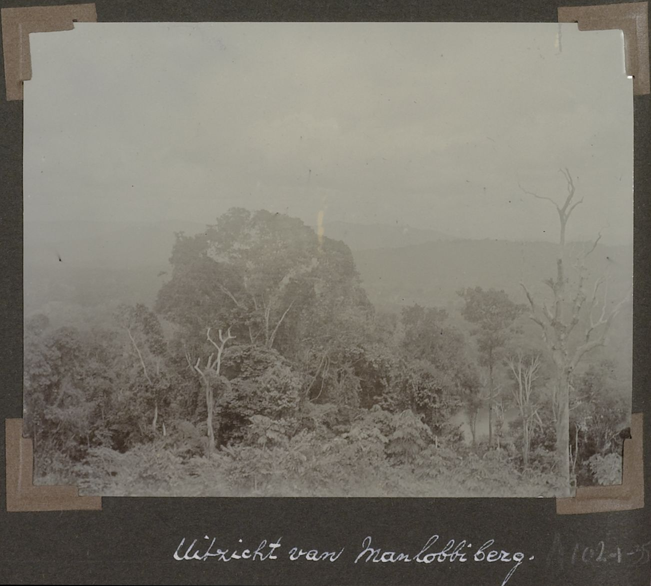 Photograph made during the Gonini Expedition in Suriname, 1903-1904. The Royal Dutch Geographical Society (KNAG) conducted an expedition to explore the surroundings of the Gonini River.